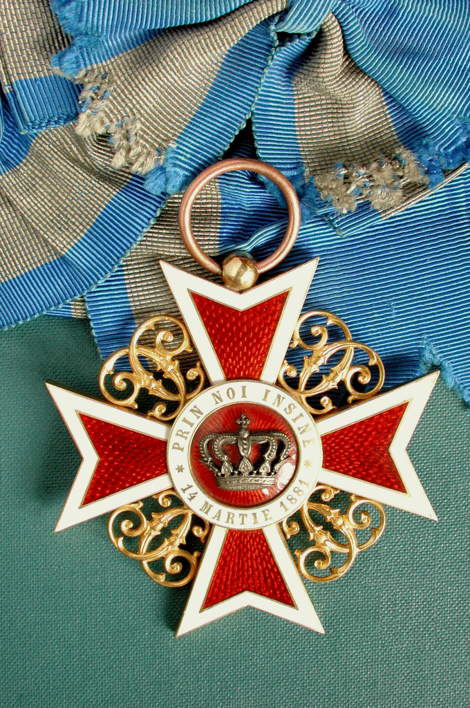 Order of the Crown of Romania, Grand Cross, 1881, obverse